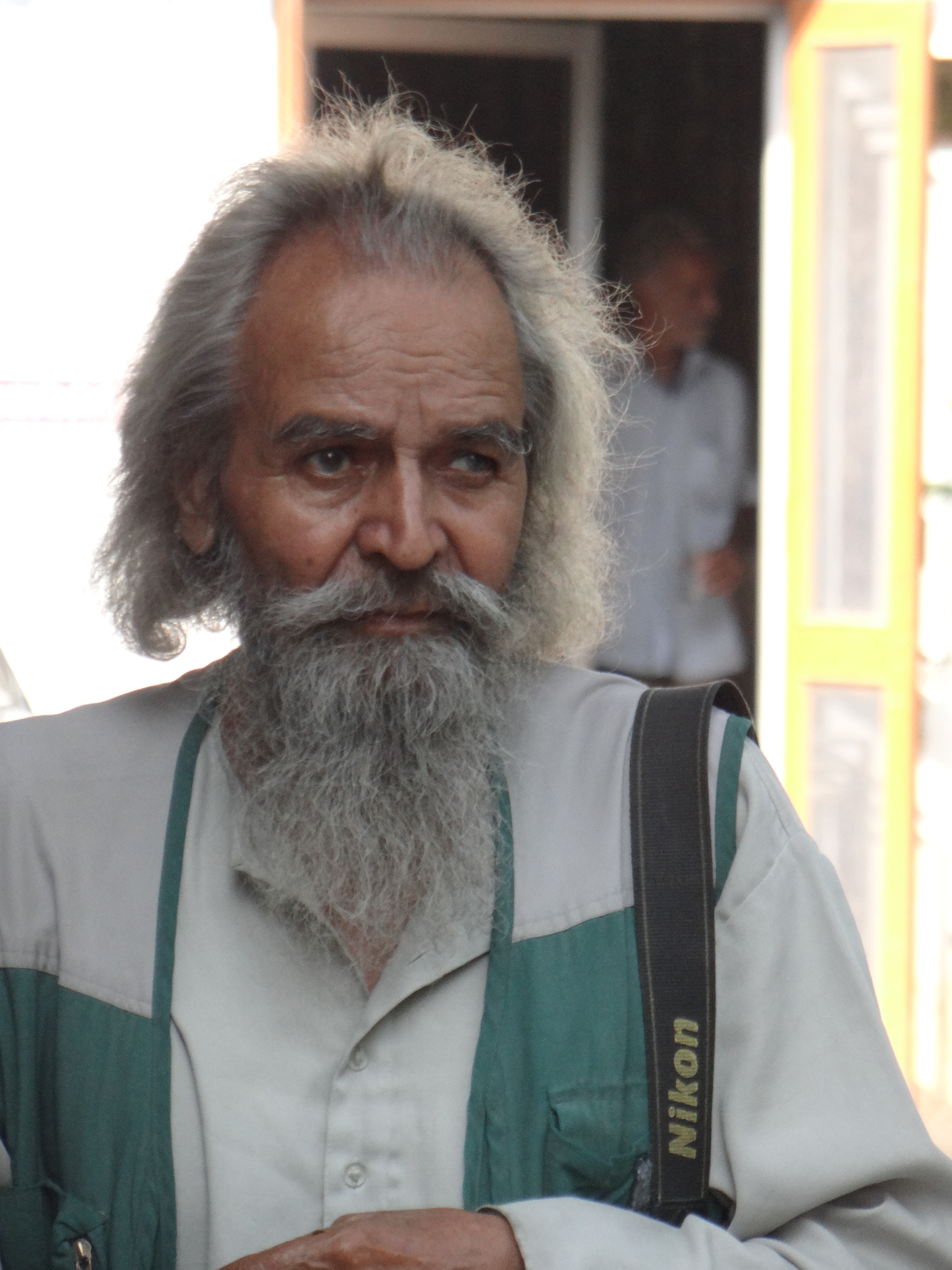 photographer panjabi writer